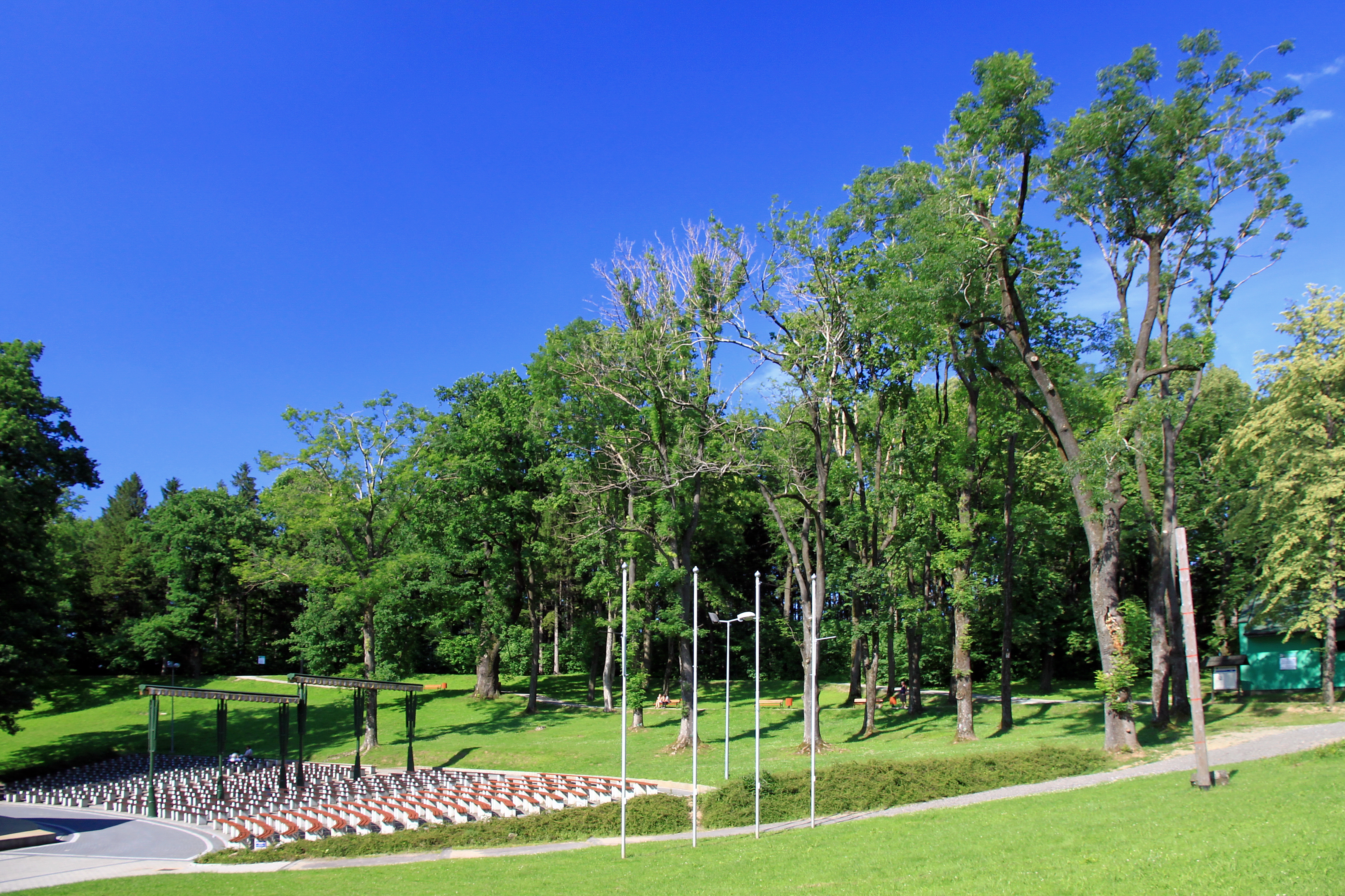 Jaworze, Spa Park, 1793